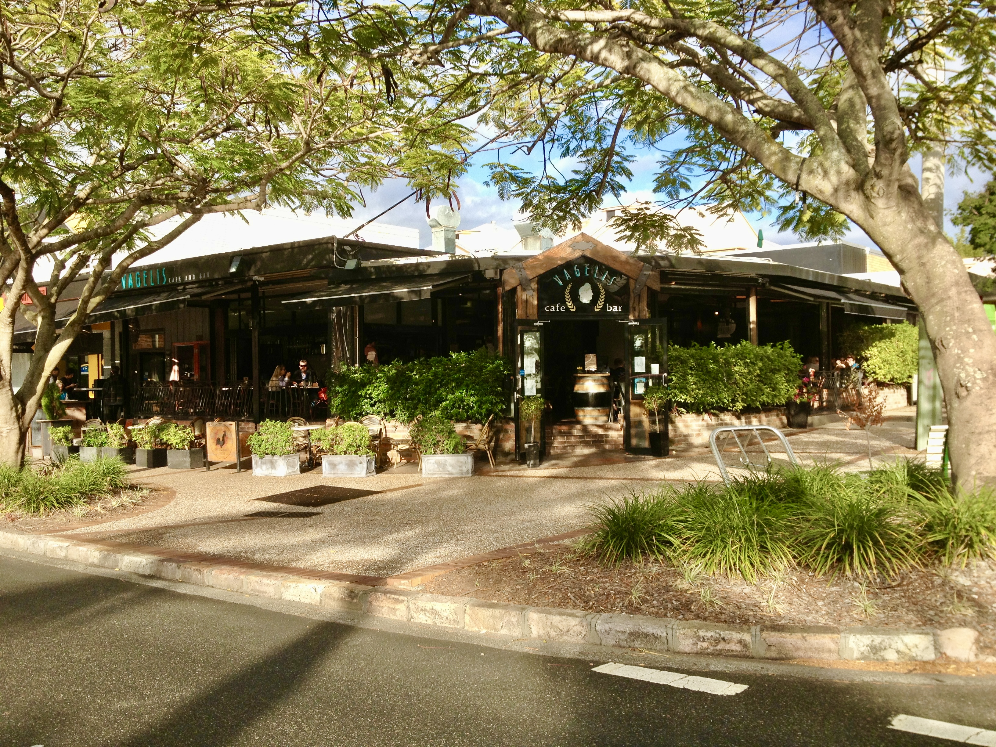 Vagelis Café in Racecourse Road, Brisbane